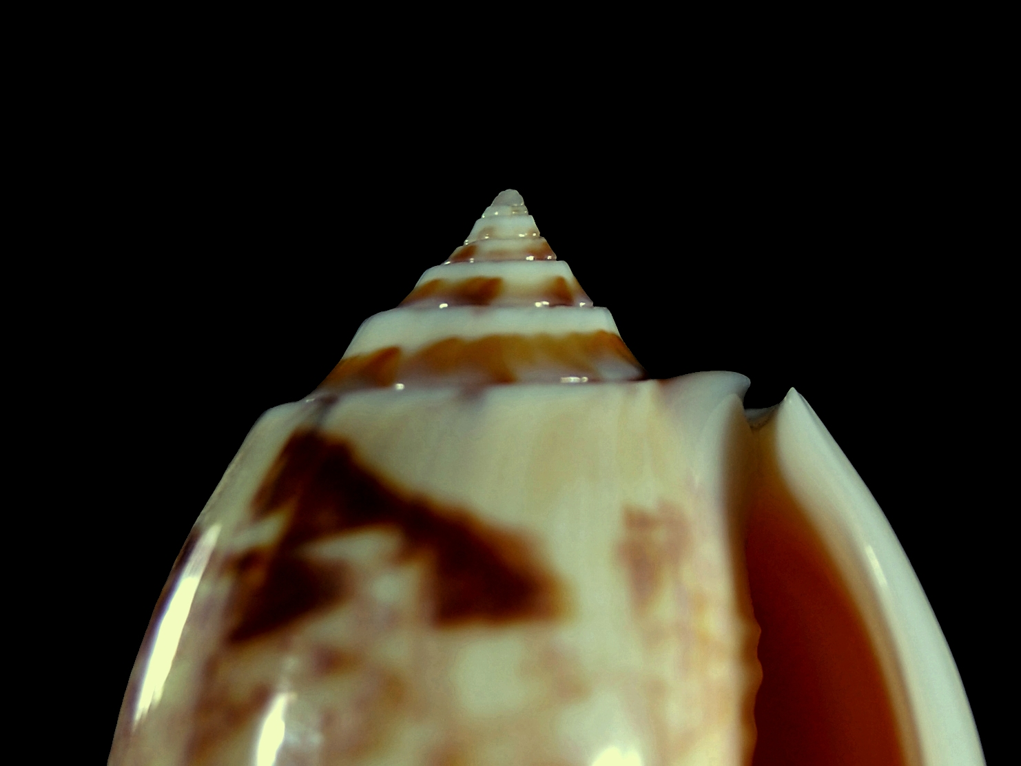 Spire of the Pacific Common Olive, Length 7.5 cm, Width 3.6 mm; from Onnna, Okinawa, Japan. 1ft.